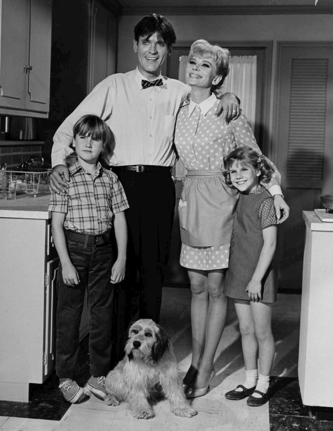 Photo of the Bumstead family from the short-lived 1968 television program, Blondie. From left: Peter Robbins (Alexander), Will Hutchins (Dagwood), Patricia Harty (Blondie), Pamelyn Ferdin (Cookie), and Daisy.